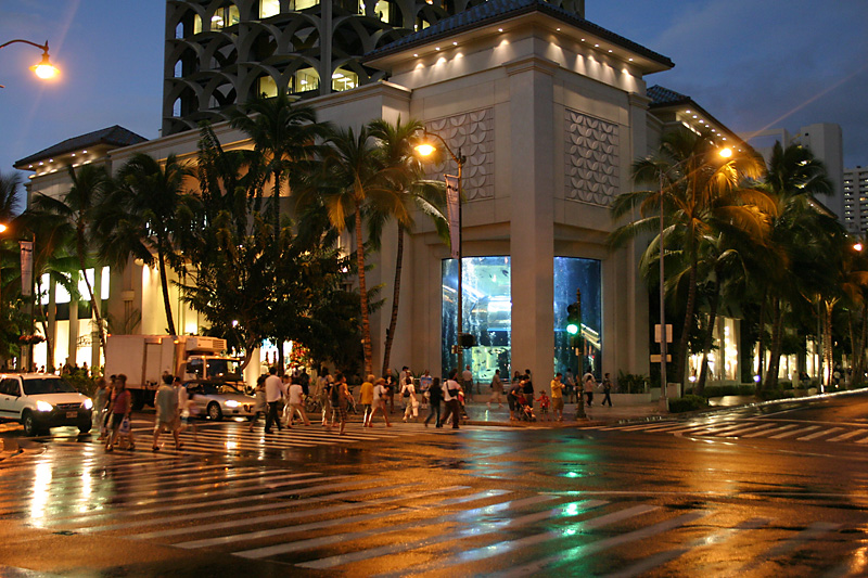 DFC Galleria in Waikiki, Honolulu